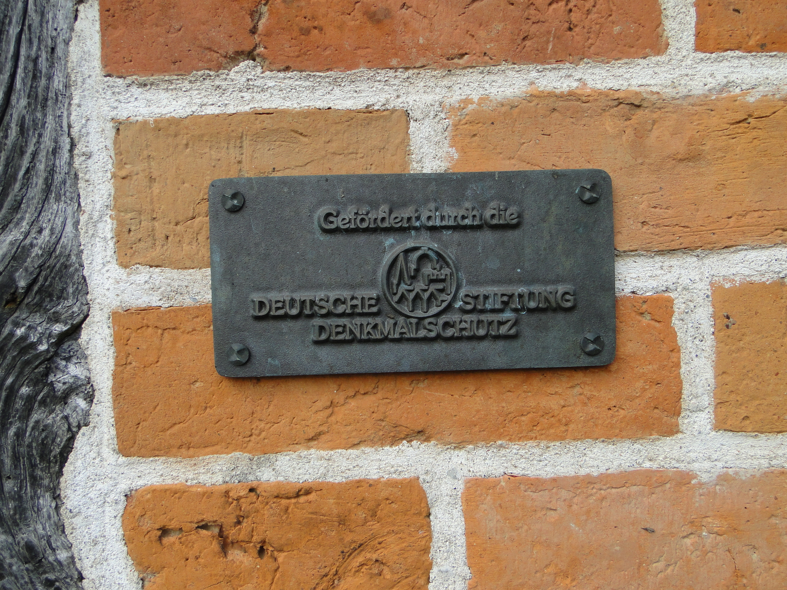 Church in Zaschendorf, district Ludwigslust-Parchim, Mecklenburg-Vorpommern, Germany